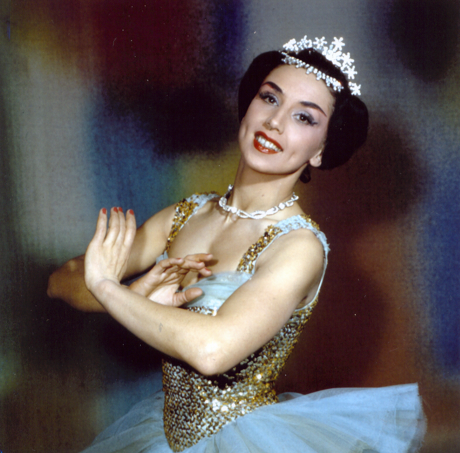 Eva Pawlik starring in the Vienna Ice Revue (1958) photographed by Eva Pawlik´s husband and pairs skating partner Rudi Seeliger, whose son being the owner of the photo uploaded the file. Can be used if the source is cited.